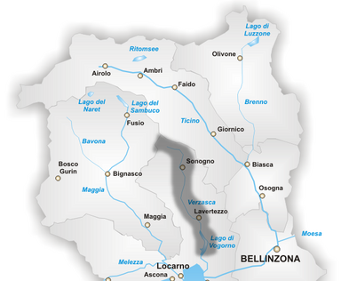 map of canton ticino, with valle verzasca emphasized